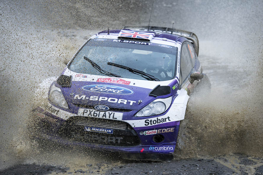 Wales Rally Great Britain 2012 Ford Fiesta RS WRC,Hafren Sweet Lamb 2,M-Sport Ford WRT,M-Sport Ford World Rally Team,Matthew Wilson,Motorsport,Rally,Rallye,SS5,Scott Martin,WP5,WRC,Wales Rally GB